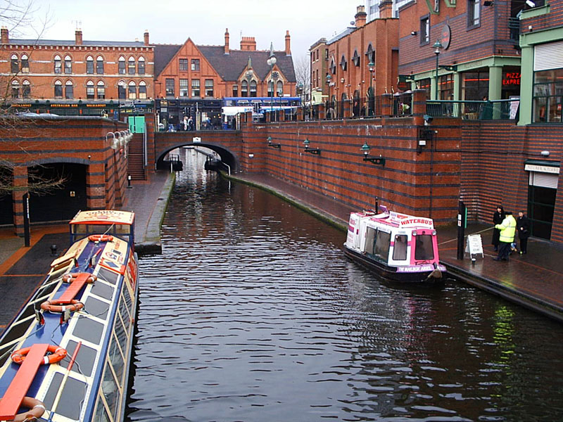 same bridge - different viewpoint Broad Street Tunnel on the Birmingham Canal Navigations Main Line in central Birmingham at Brindleyplace. Photo by G-Man Jan 2004. (another image)